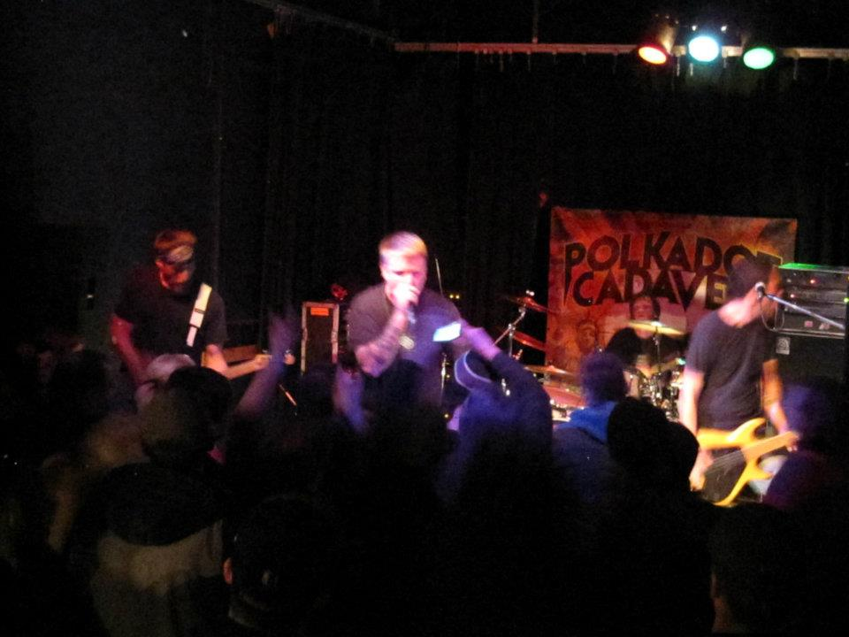 Polkadot Cadaver playing live at Vaudeville Mews in Des Moines, Iowa on January 22nd, 2012.